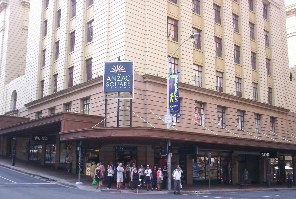 Anzac Square Arcade ( this photograph was taken by Figaro )